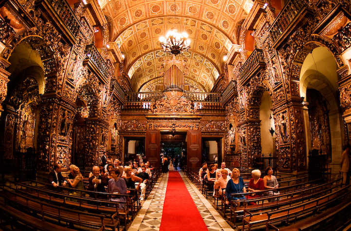 Interior of the baroque Monastery of São Bento of Rio de Janeiro, Brazil.